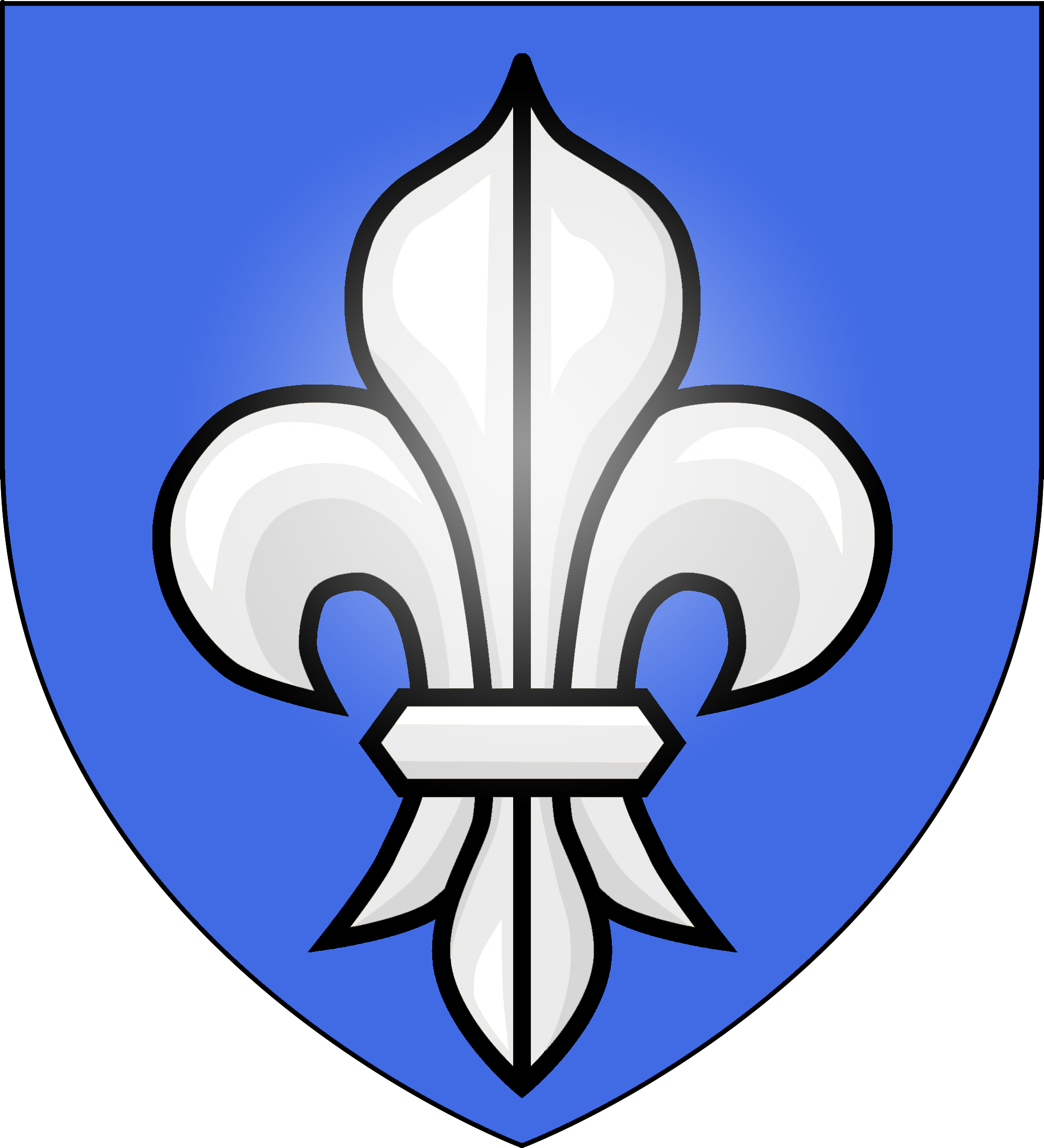 As described in Kimber's The Peerage of England: Sapphire (Azure), a fleur de lis Pearl (Argent)